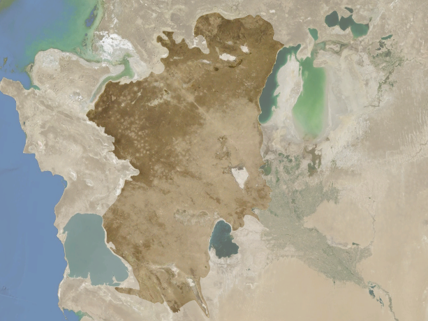 Ustyurt Plateau highlighted between Caspian and Aral seas in Kazakhstan, Uzbekistan and Kyrgyzstan.